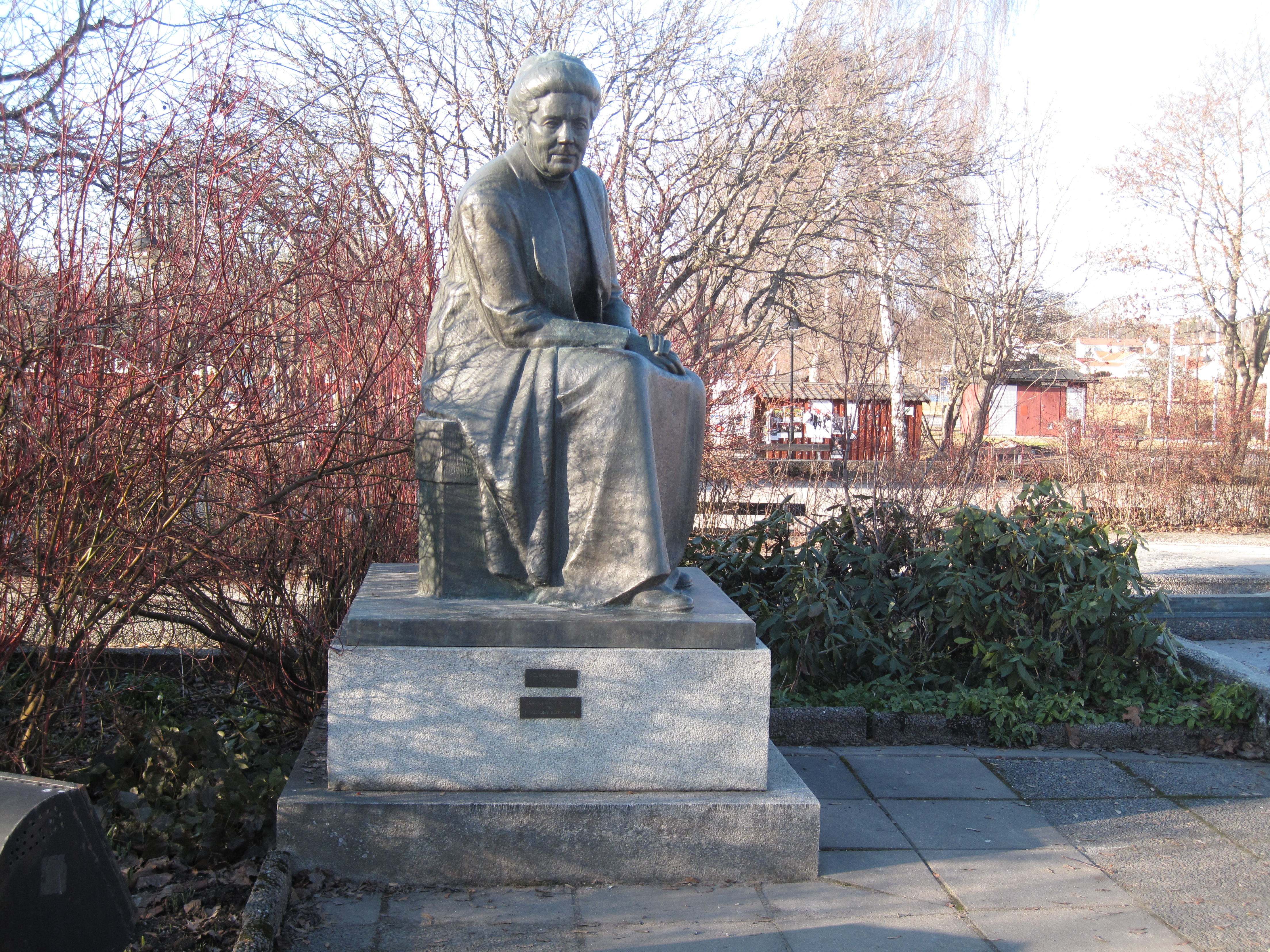 Statue of the writer Selma Lagerlöf in Sunne, Sweden.